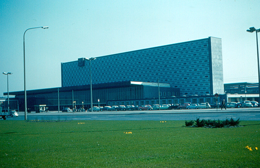 This was a brand-new main station, away from the center of Braunschweig. It was opened on October 1, 1960. It replaced a station that was next to the old town. Trains go straight through this station. It was part of the Deutsche Bundesbahn (German Federal Railroad) plan to eliminate "terminal" stations, where trains have to reverse direction.